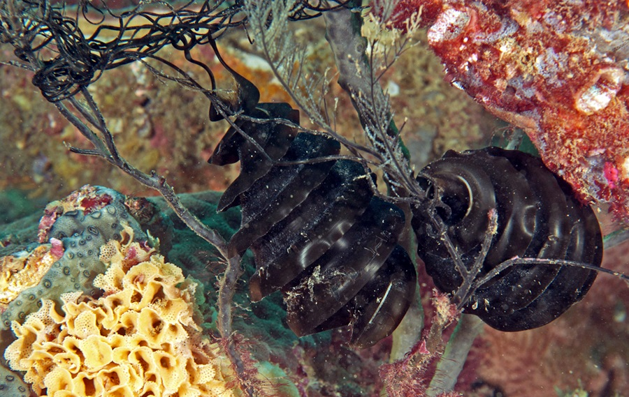 Egg capsules of a Crested Horn Shark, Heterodontus galeatus, at North Solitary Island, New South Wales.